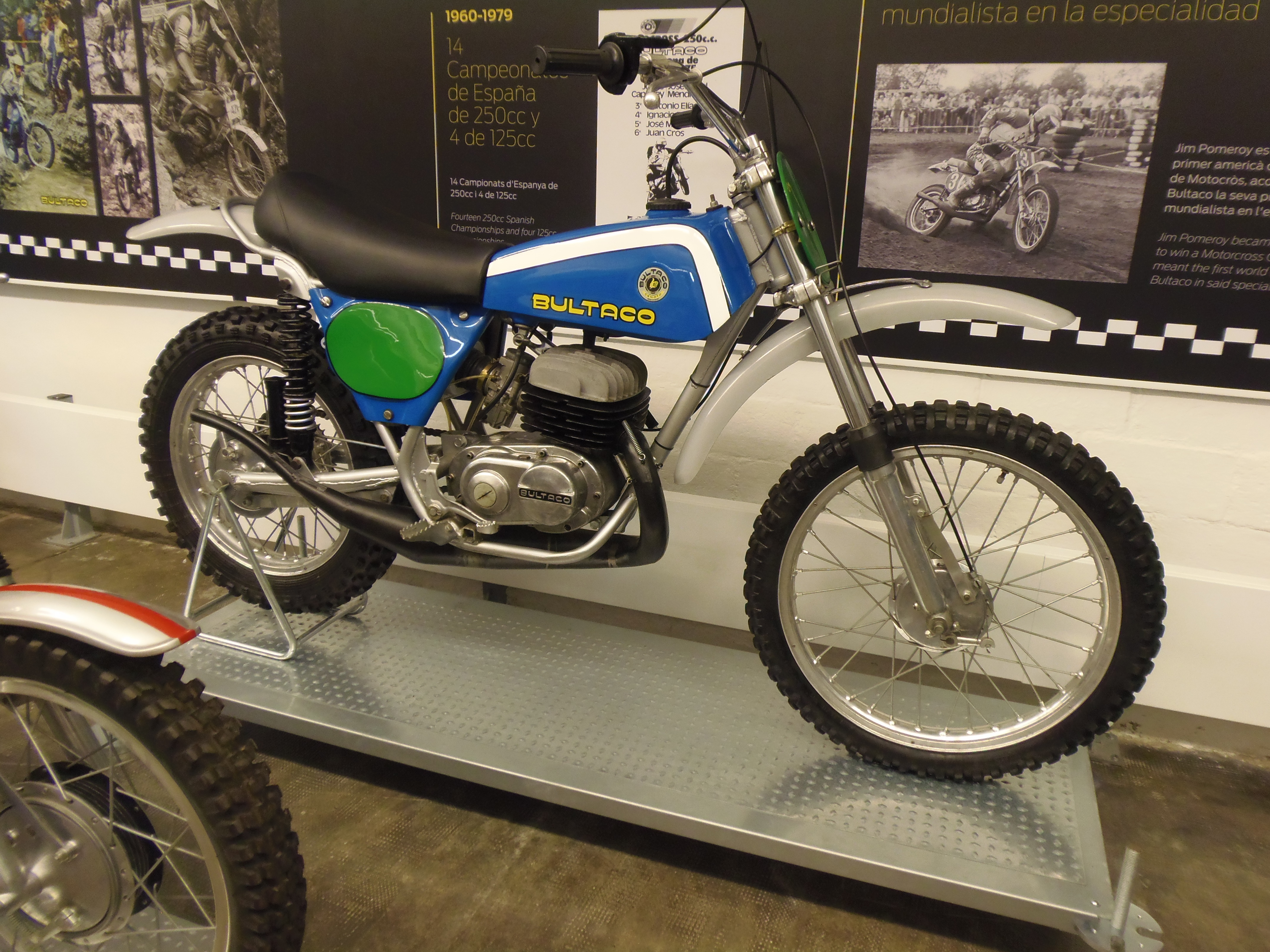 Bultaco Pursang MK8 "GP" 250, 250 cc, 1974